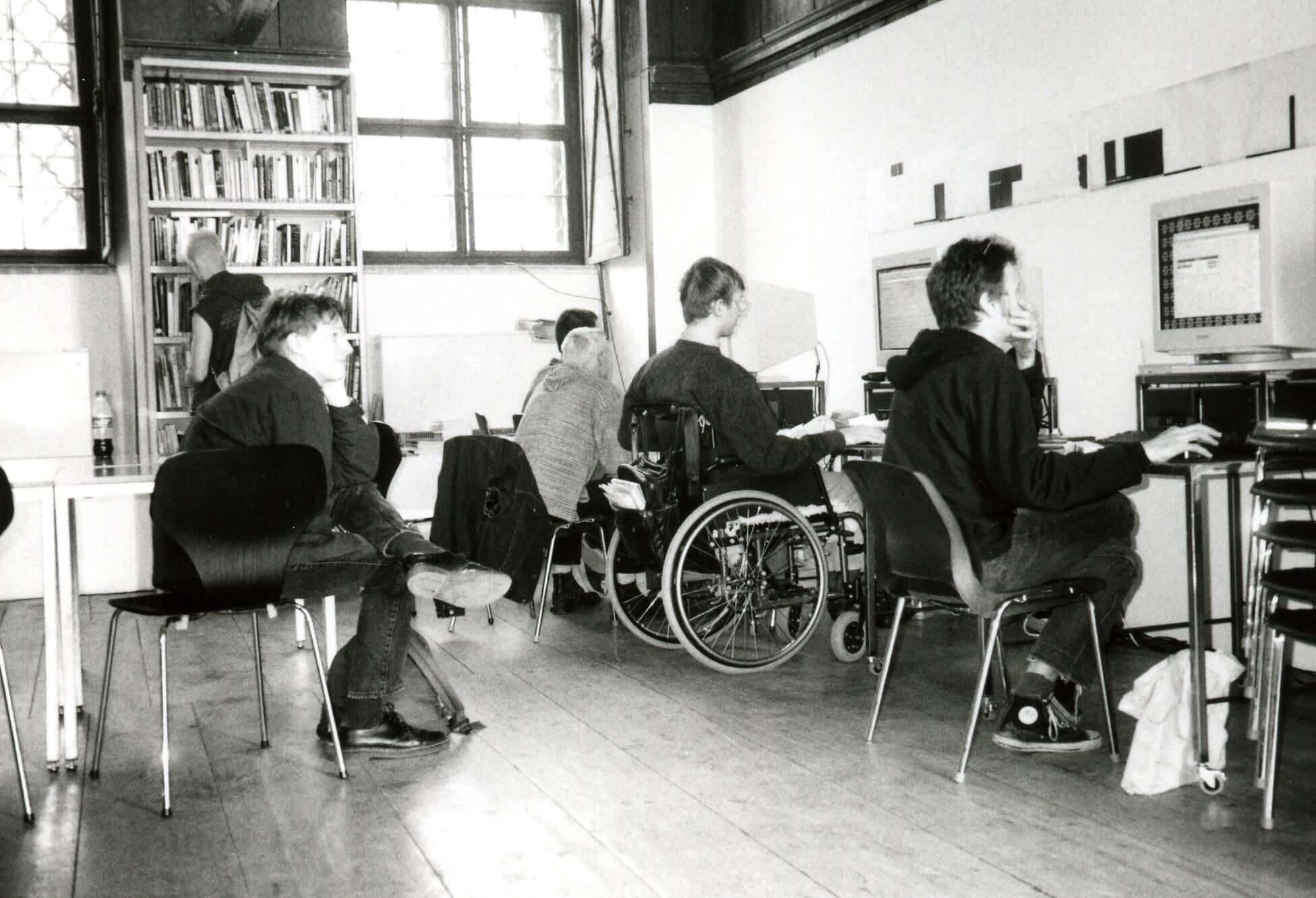 Digital competence XXI. One of those abilities to be developed in the 20th century.